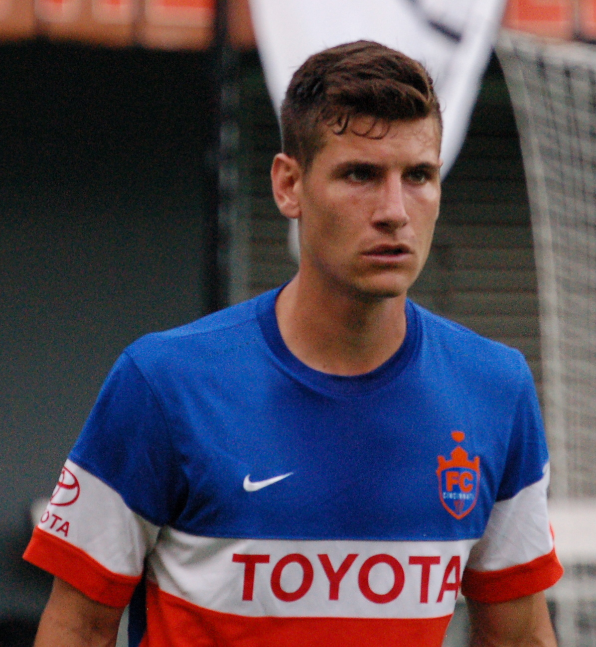 Eric Stevenson (CIN) Taken during a match between FC Cincinnati and New York Red Bulls II at Nippert Stadium in Cincinnati, USA on July 20, 2016.